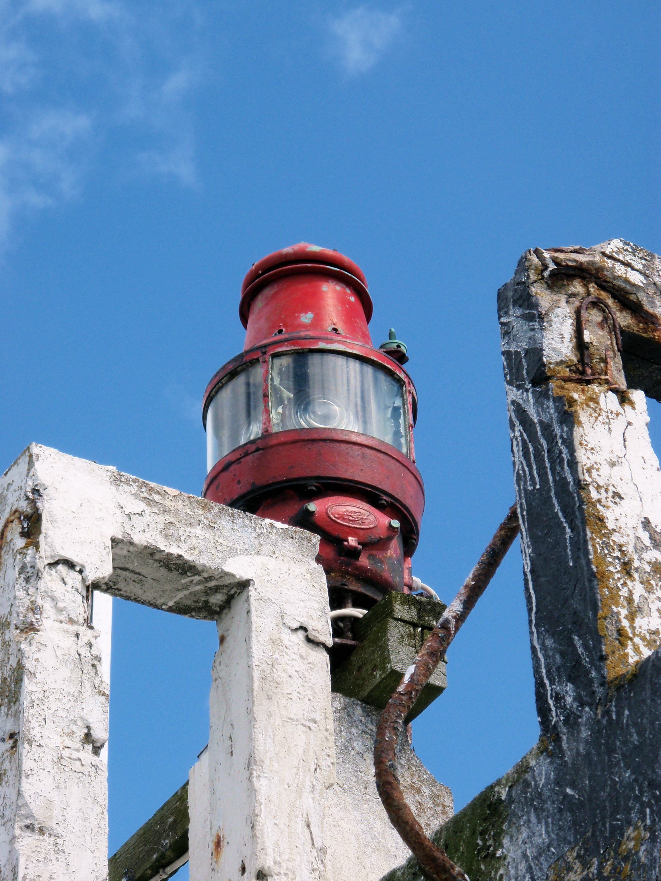 Light device at Lokkiluoto lighthouse outside Helsinki